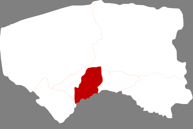 Locator map of Linhe District in Bayan Nur, Inner Mongolia, China